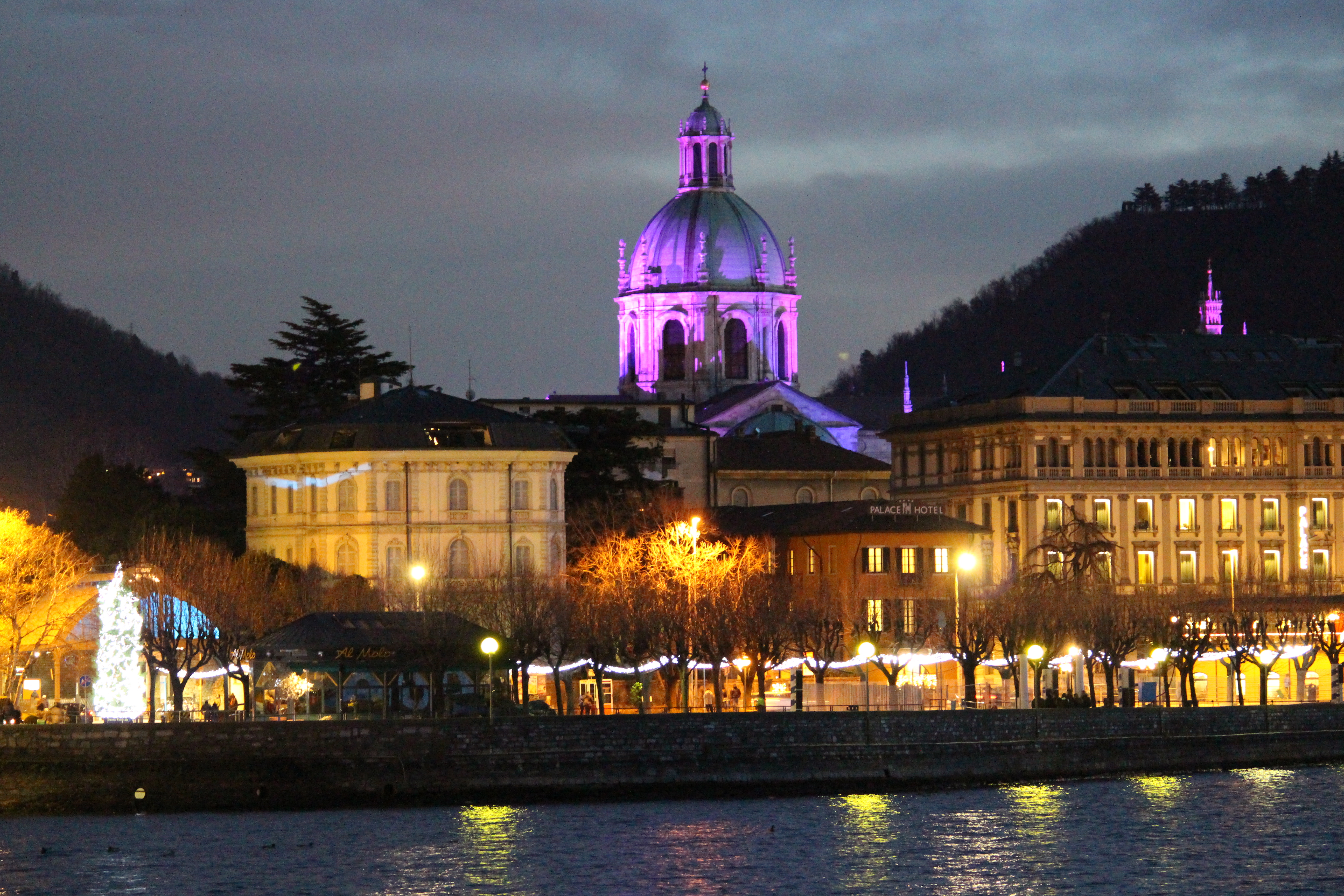 Cathedral of Como as seen across the lake at night